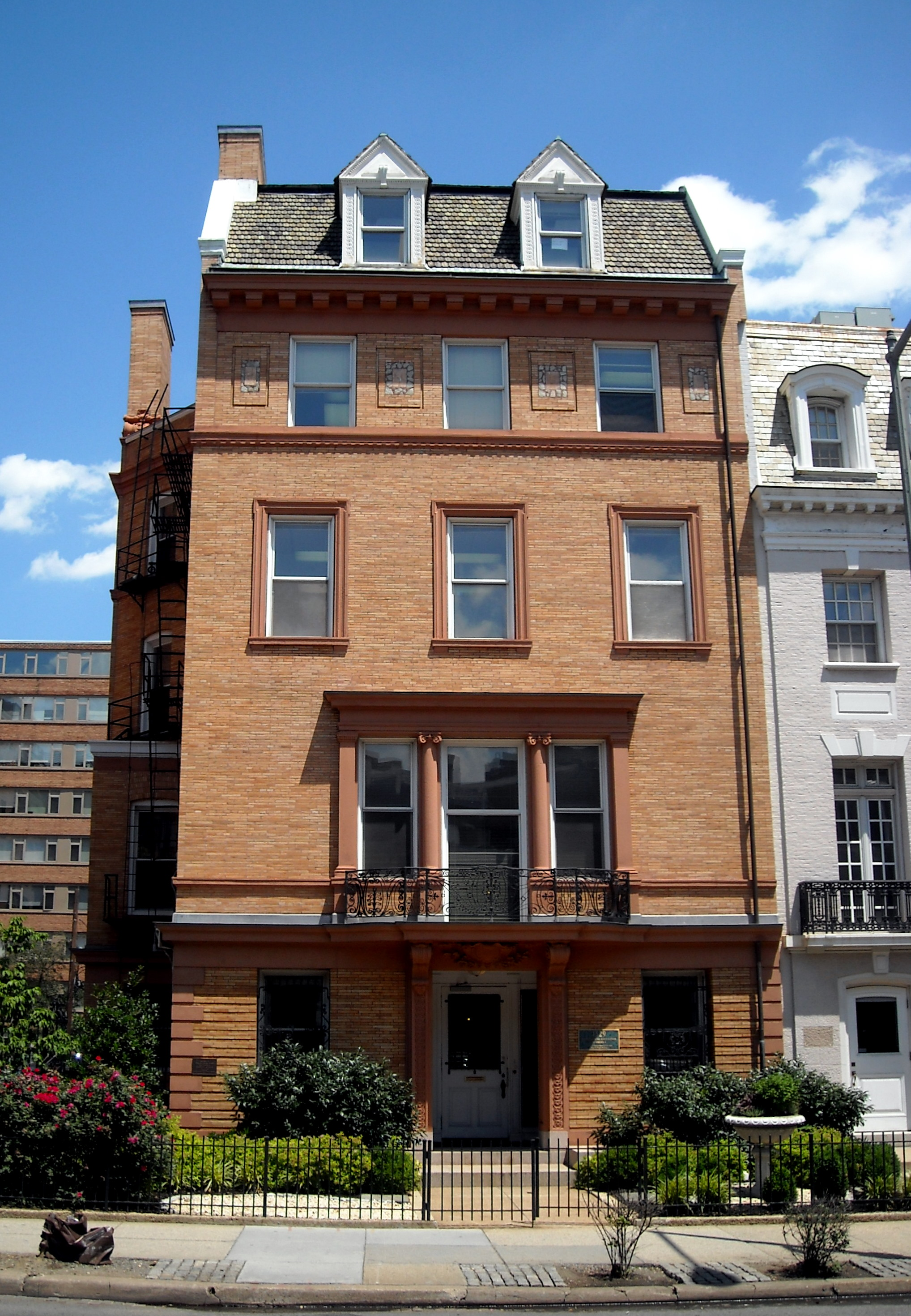 The Mathematical Association of America headquarters (since 1979) located at 1529 18th Street, NW in the Dupont Circle neighborhood of Washington, D.C. The five-story, Classical Revival building was constructed in 1903. It is a contributing property to the Dupont Circle Historic District, with a 2009 property value of $6,733,700. Notable owners of the building have included the Cuban government (Office of Legation from 1915–1919; residence of Carlos Manuel de Céspedes y Quesada while serving as Cuban Minister Plenipotentiary), Charles Evans Hughes (residence from 1921–1925 while serving as U.S. Secretary of State), Frederic M. Sackett (residence from 1928–1929 while serving in the U.S. Senate), the Association of Military Colleges and Schools of the United States (headquarters during the 1950s), and the Association of the United States Army (headquarters from the 1950s–1970s).